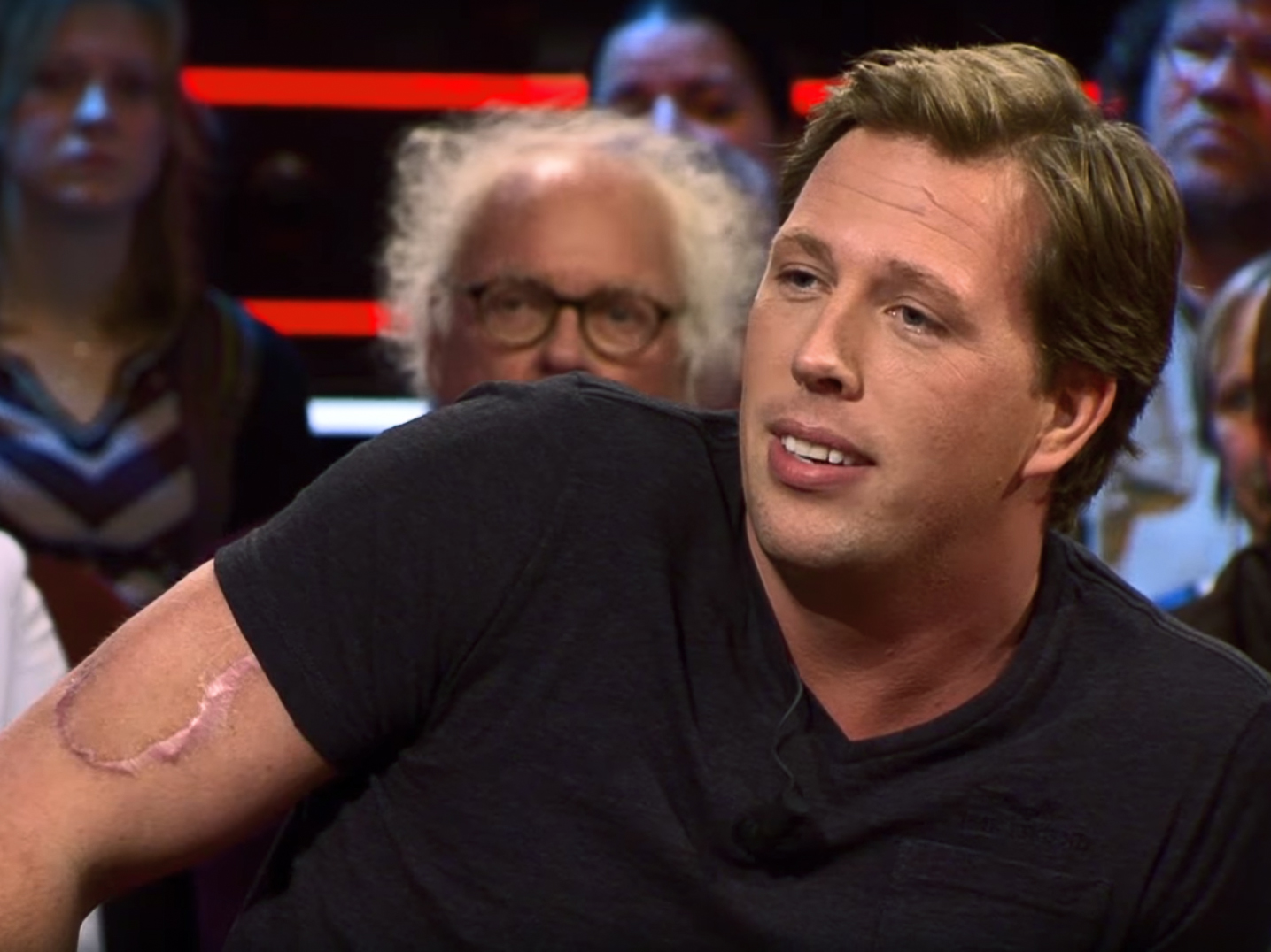 Freek Vonk (2017)